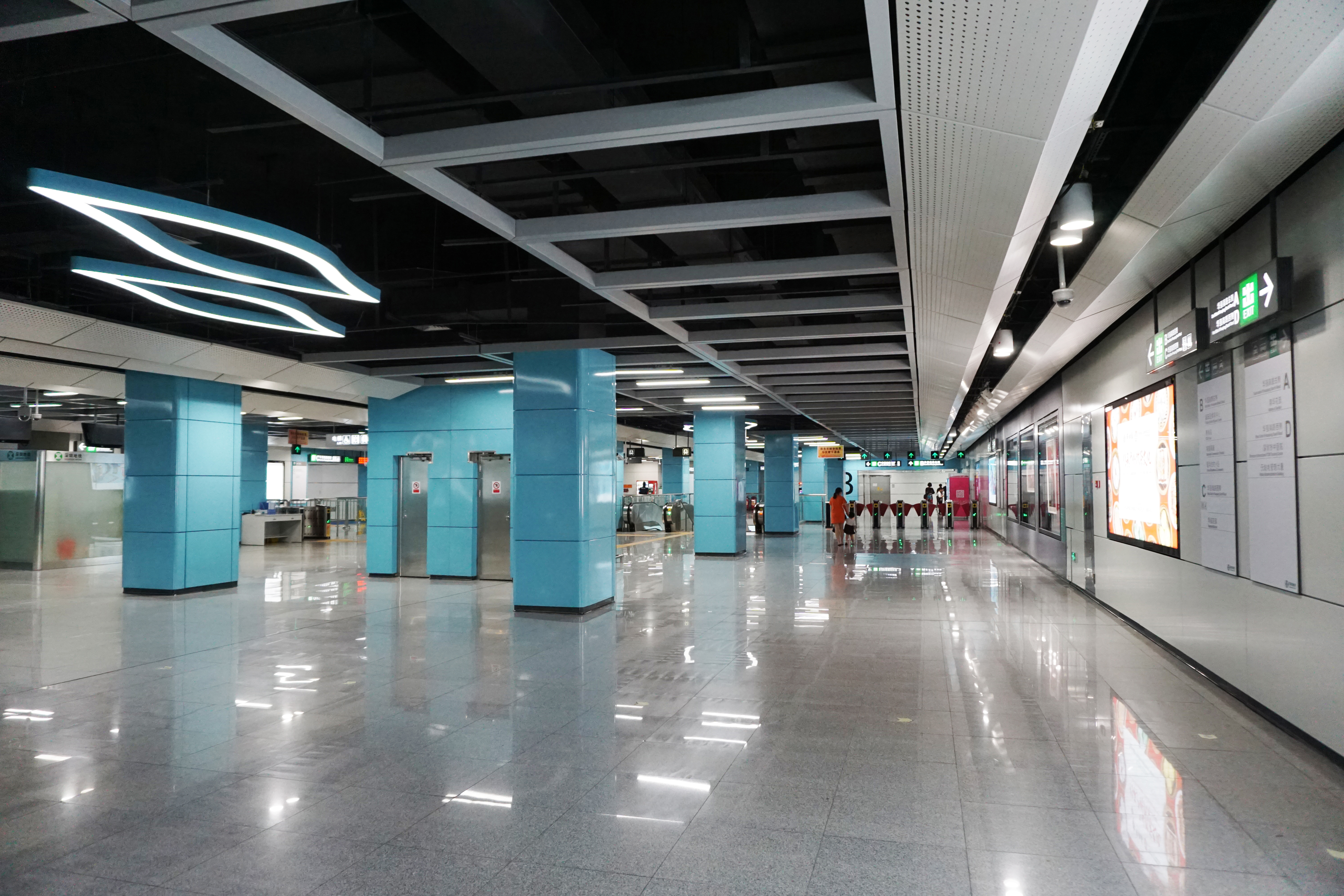 Huaqiang South Station in Futian District, Shenzhen.